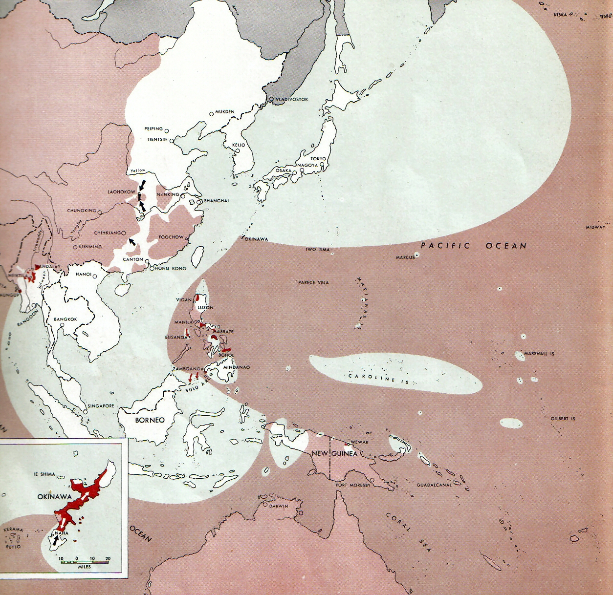 Map of the front against Japan as of 15 April 1945: This map is taken from the source "Atlas of the World Battle Fronts in Semimonthly Phases to August 15th 1945: Supplement to The Biennial report of The Chief of Staff of the United States Army July 1, 1943 to June 30 1945 To the Secretary of War". (See Cover, Forward and Map details)